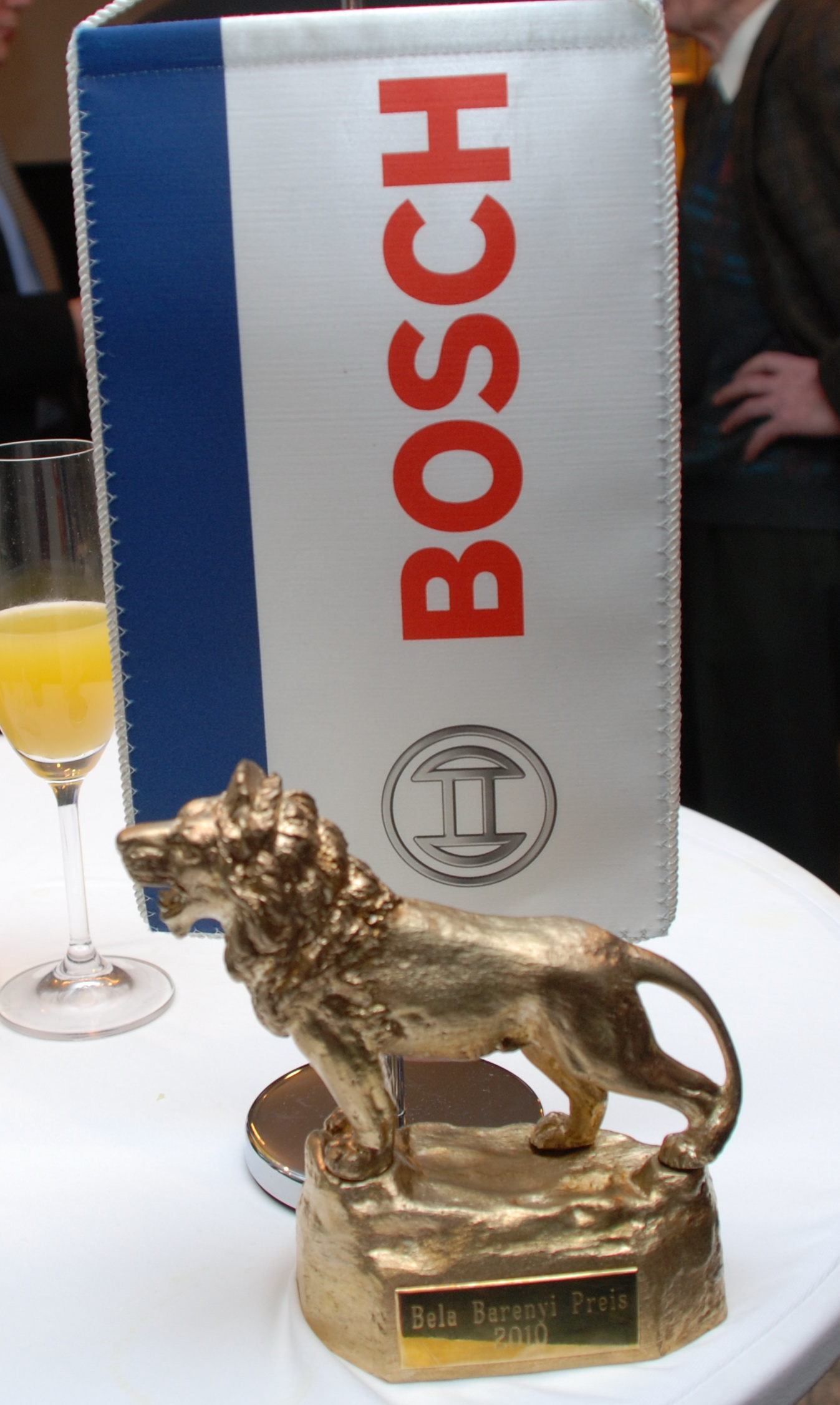 Bela Barenyi Price